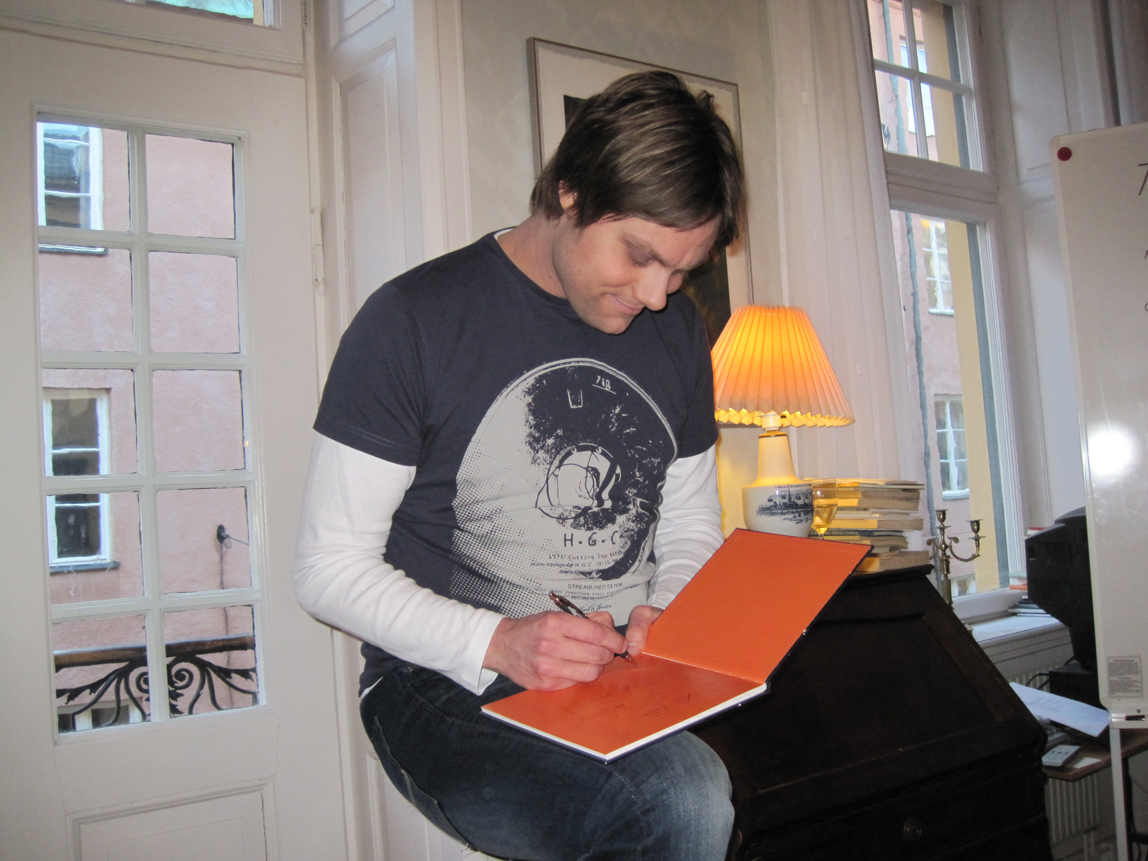 Peter Ekberg